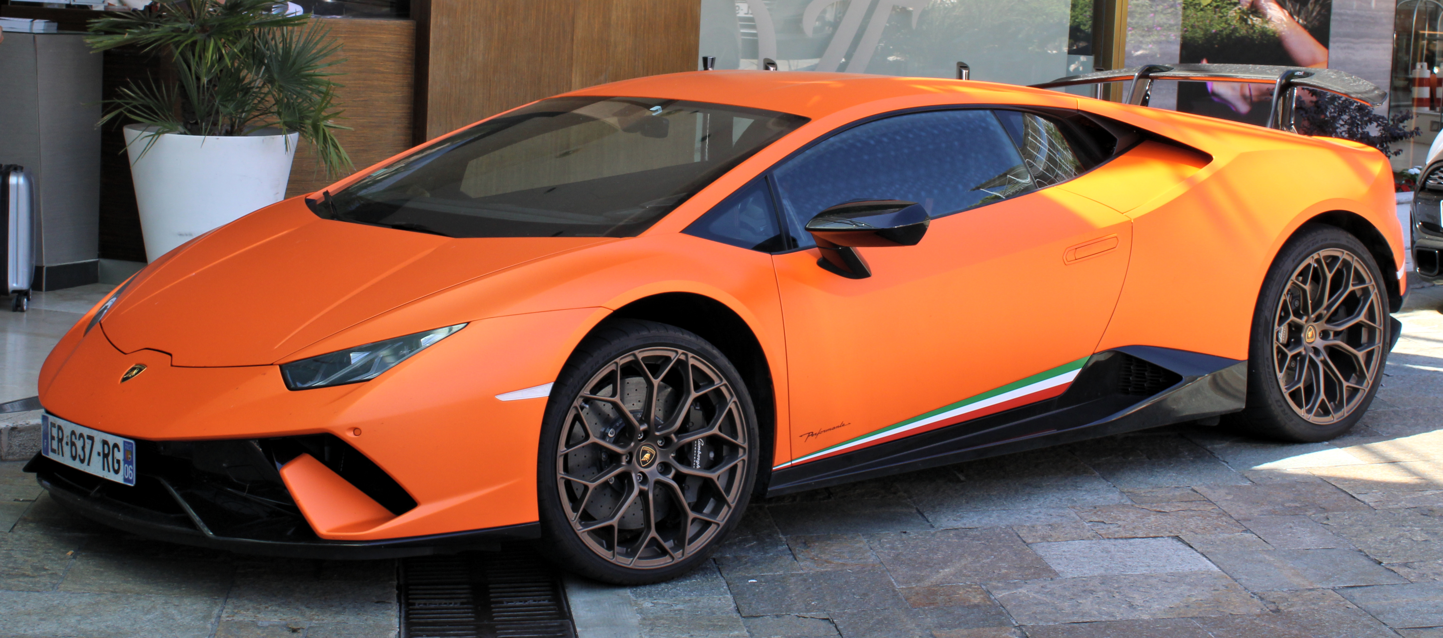 Lamborghini Huracán LP 640-4 Performante in Monaco